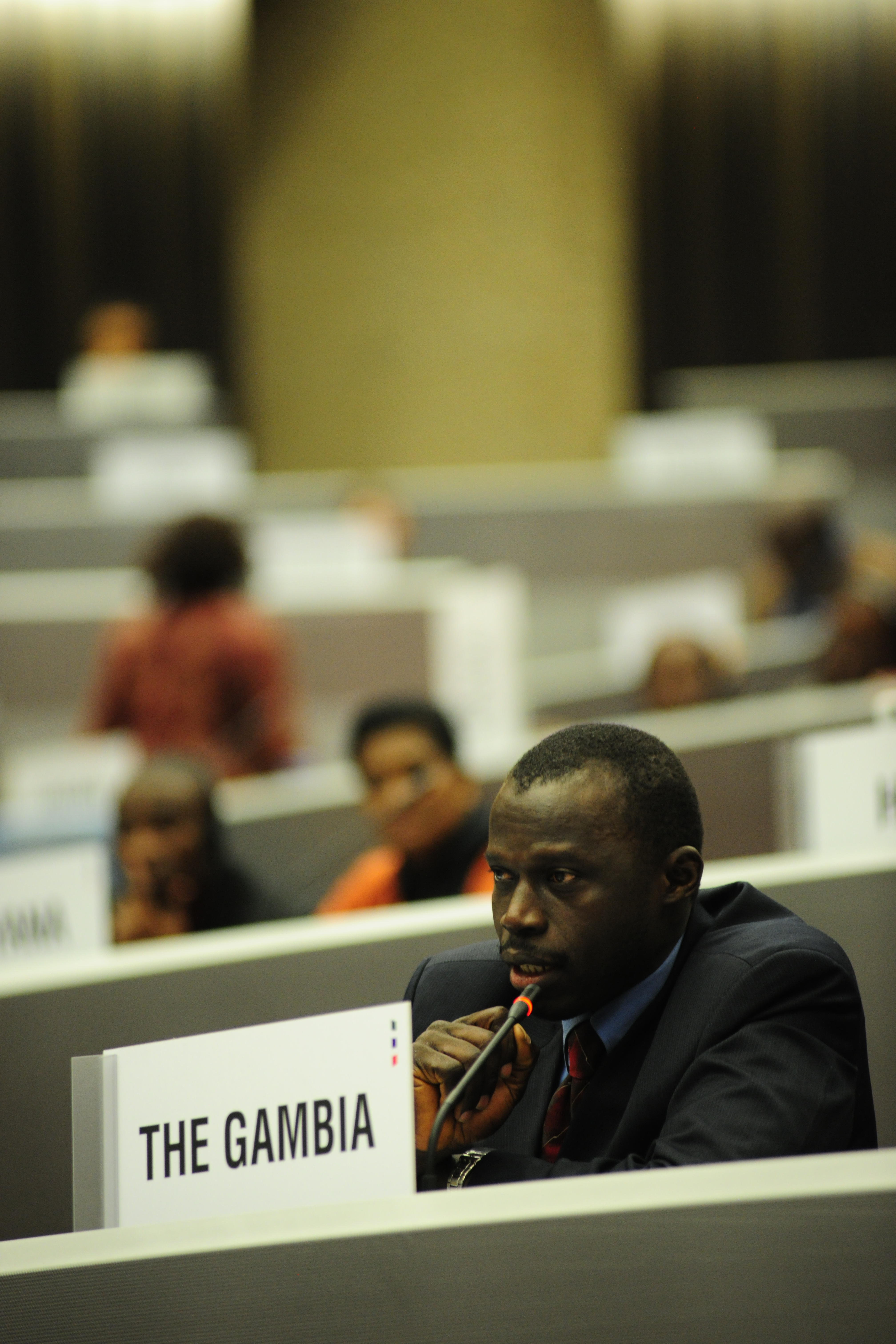 Abdou Kolley speaking at the Eighth Session of the Ministerial Conference of the World Trade Organization, taking place in Geneva, Switzerland from 15-17 December 2011.